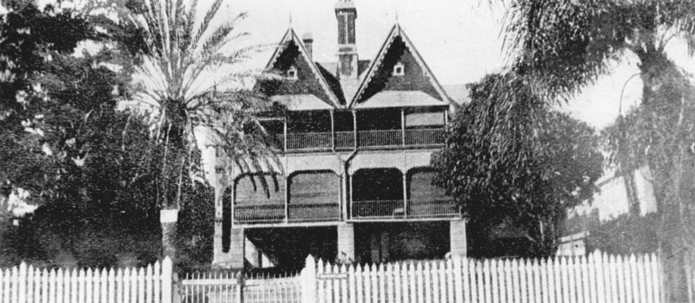 Front view of Riversleigh, North Quay, Brisbane, ca. 1931 A Gothic villa designed by Benjamin Backhouse. Riversleigh was built in 1863 on the corner of North Quay and Herschel Streets for Bishop Tufnell as an investment. In later years Riversleigh was used as a private girls school and a boarding house.